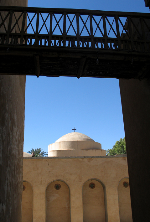 Monastery of St. Macarius, Egypt